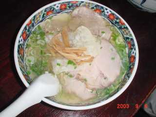 Shio ramen in Hakodate